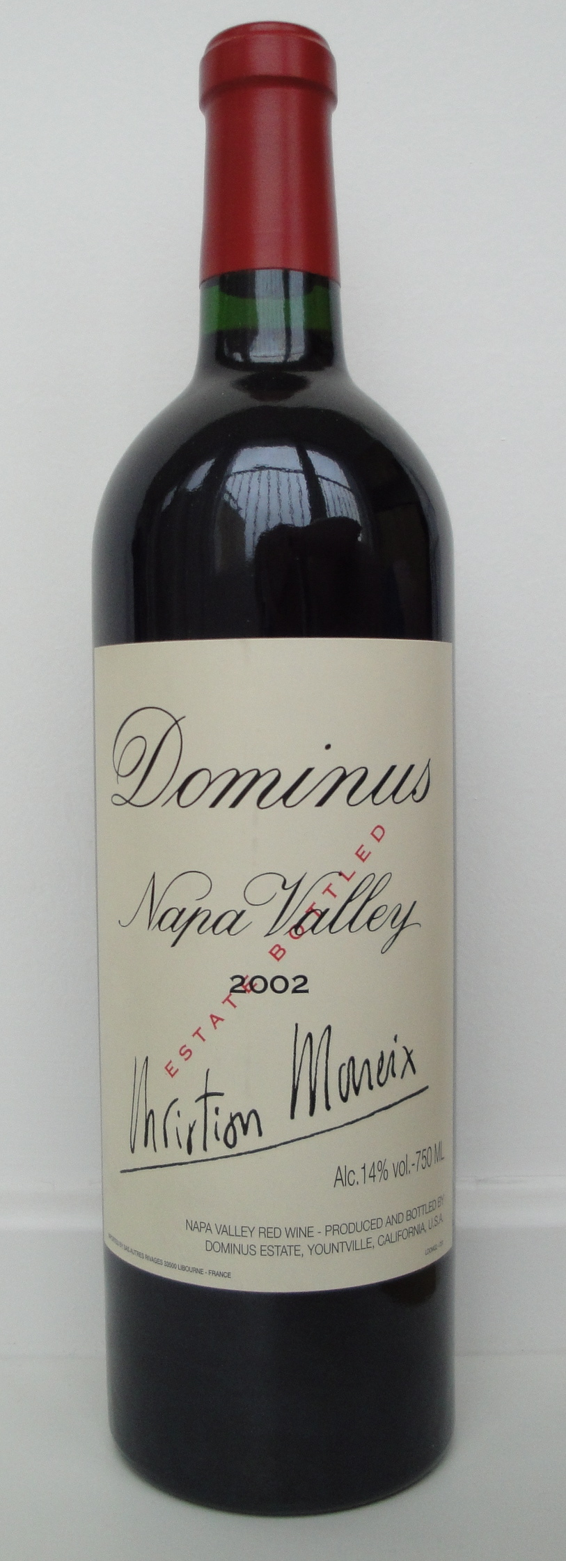 Dominus 2002 from Dominus Estate, a wine from Napa Valley, California.